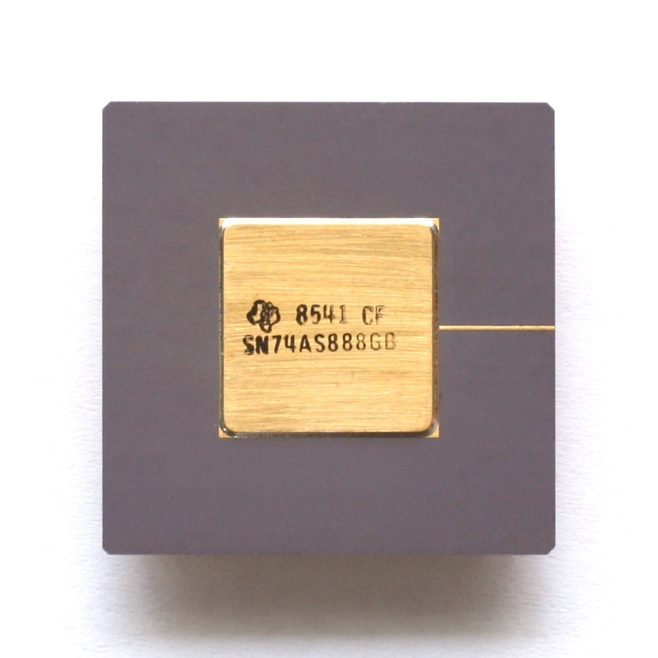 Cascadable 8 Bit ALU TI SN74AS888 (BitSlice).